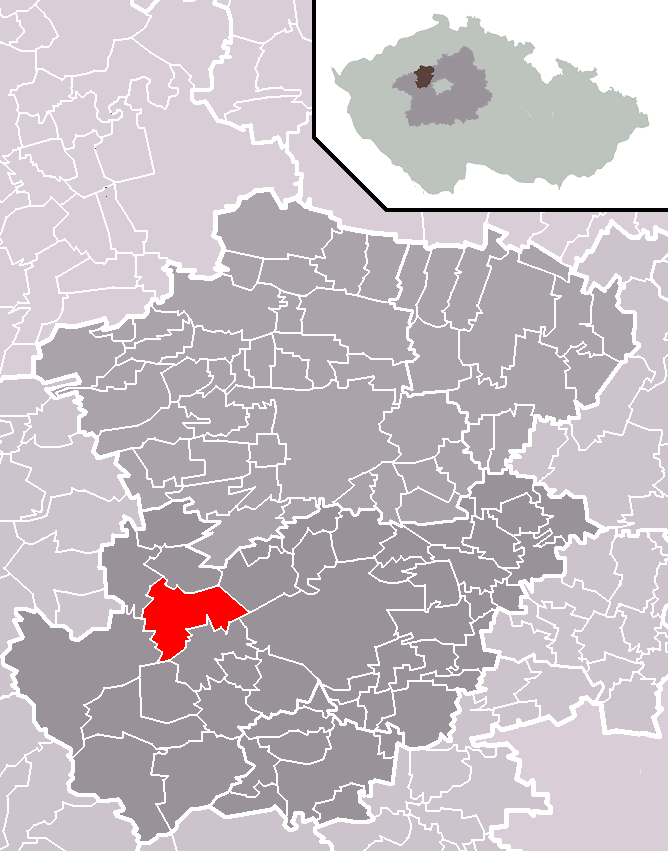 Location of Tuchlovice municipality within Kladno District and administrative area of Kladno as a Municipality with Extended Competence.